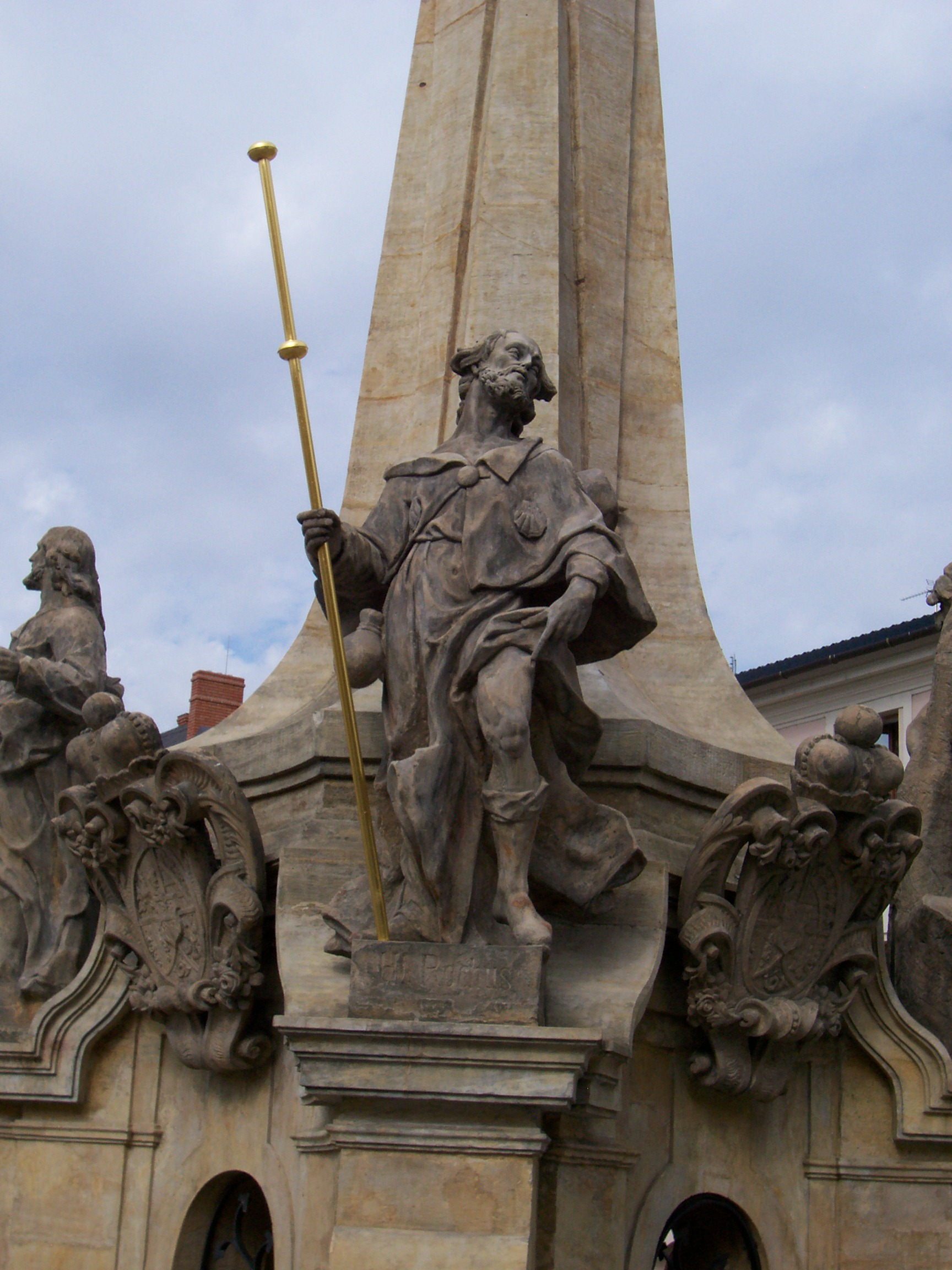 Šternberk: Marian Column - St. Rochus